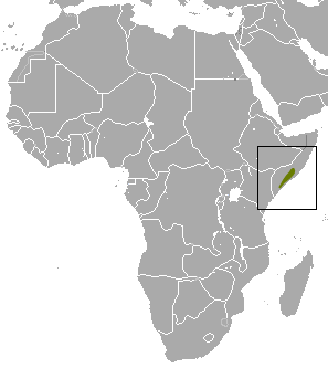 Greenwood's Shrew (Crocidura greenwoodi) range